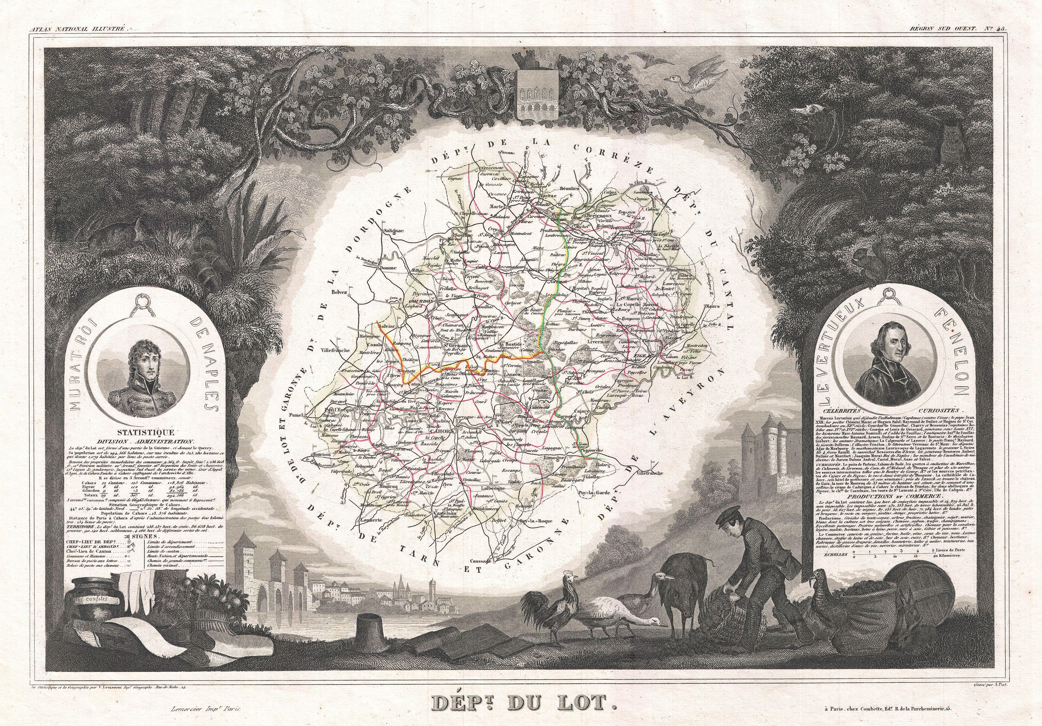 This is a fascinating 1852 map of the French department of Lot, France. This area of France is known for its production of Cahors wine, a powerful red wine, often “harsh when young, but remarkable after a few years in bottle.” The Pilgrimage to Santiago de Compostella also passes through the northern part of this region. The map proper is surrounded by elaborate decorative engravings designed to illustrate both the natural beauty and trade richness of the land. There is a short textual history of the regions depicted on both the left and right sides of the map. Published by V. Levasseur in the 1852 edition of his Atlas National de la France Illustree.